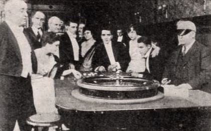 Still from the American drama film At Bay (1915) with Florence Reed, on page 51 of the January 7, 1922 Exhibitors Herald.